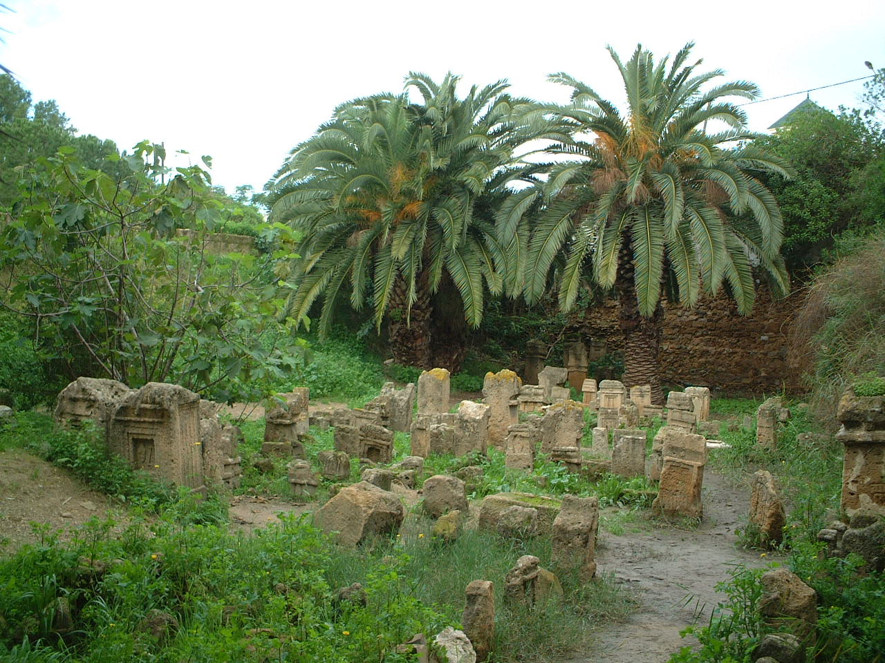 Carthage, Tunisia.